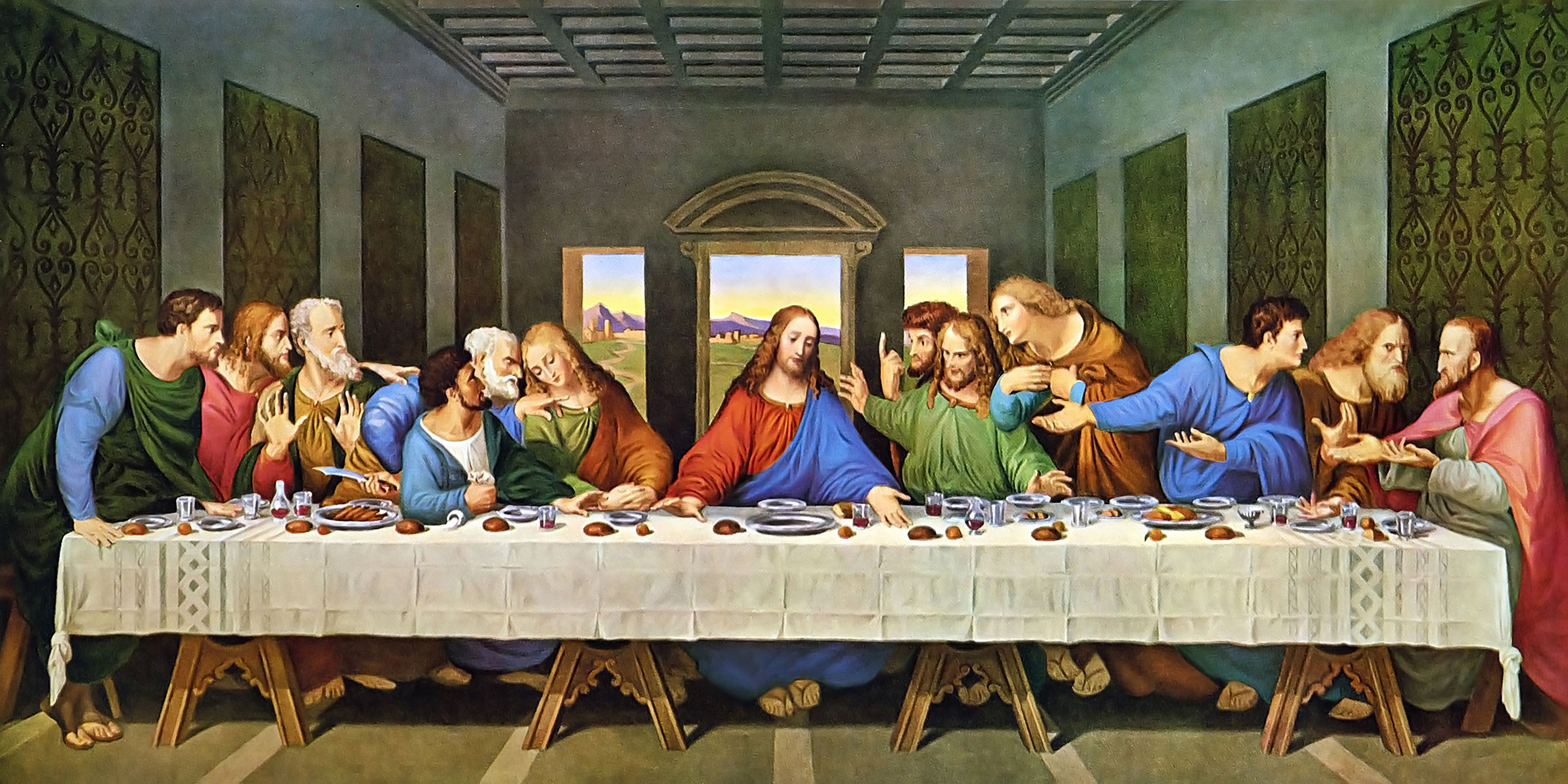 The Last Supper Restored - Leonardo Da Vinci